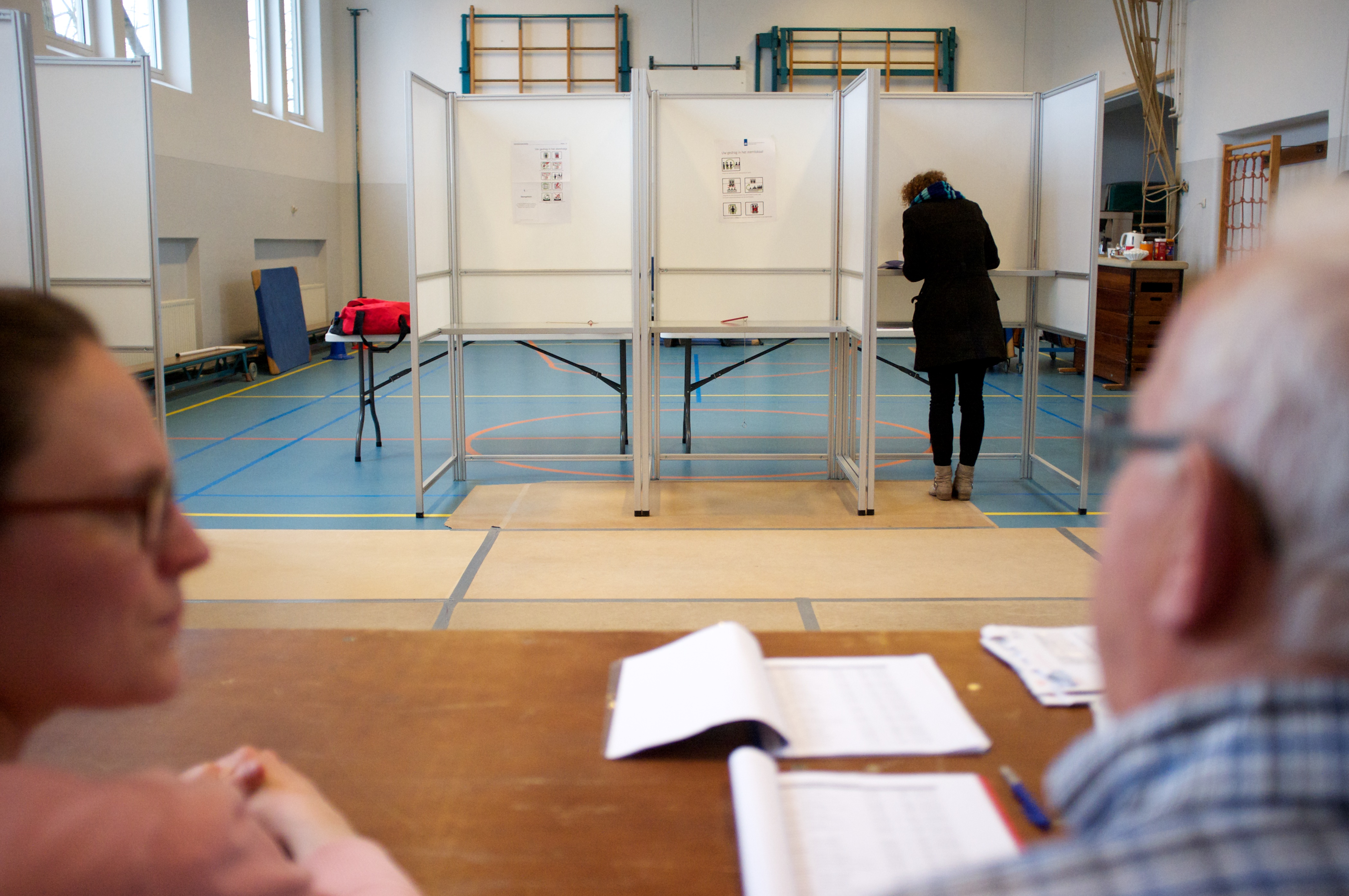 Voting location and booths of the provincial elections in 2015 in The Netherlands.